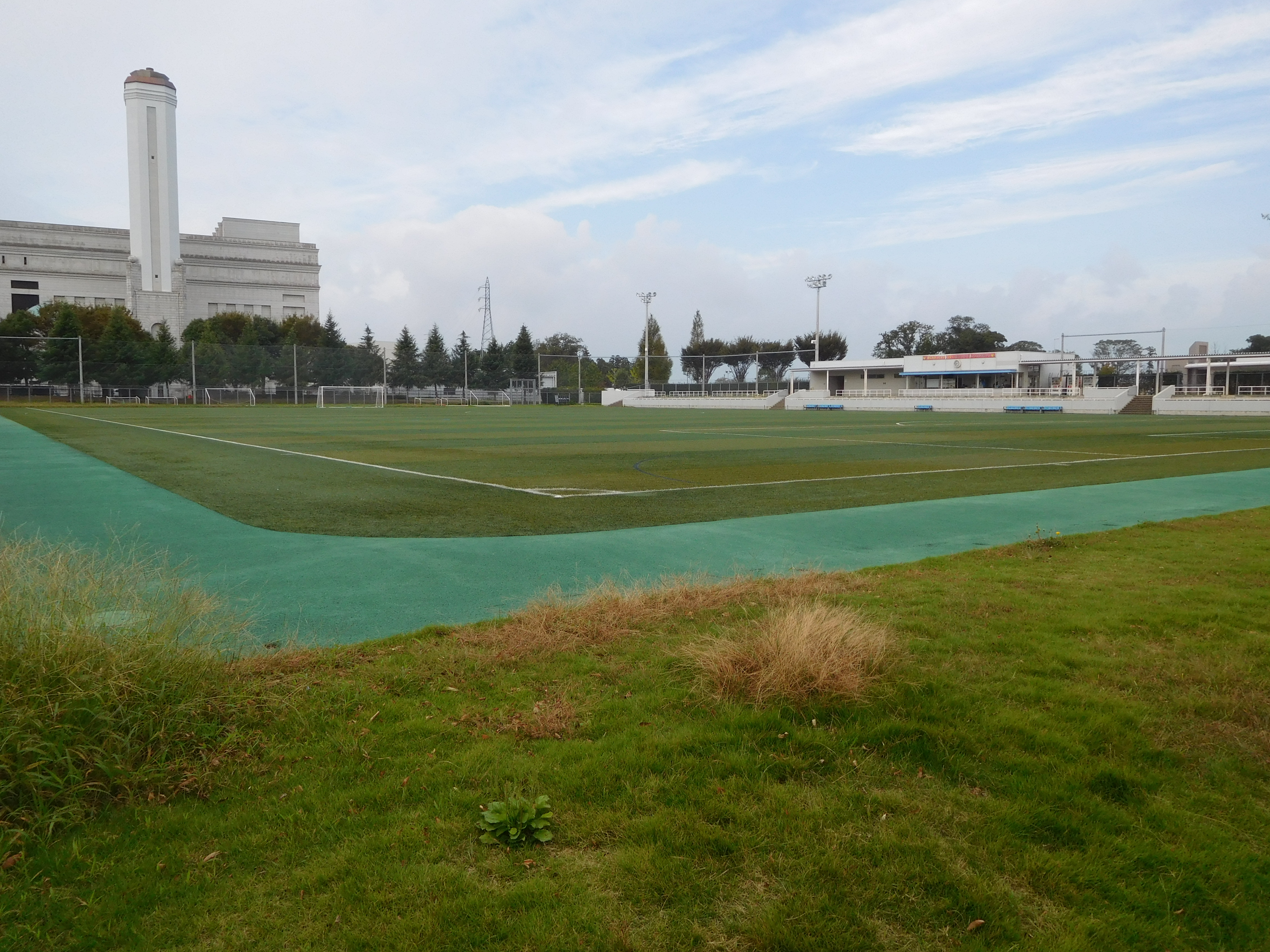 This is the Health Plaza of Tsukuba Wellness Park in Tsukuba, Ibaraki, Japan.